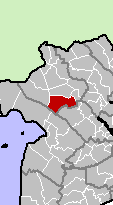 Thoai Son District, An Giang Province, Vietnam.